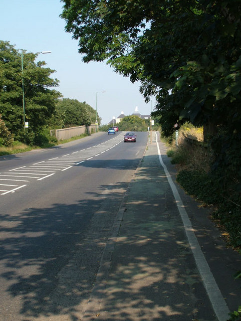 London Road A226, Greenhithe. A226 Heading from Dartford toward Gravesend this is the first sighting of Waterstone Park development 898686. Blending in with the rural feel an Oast House detail has been added to one of the blocks in Sandpiper Close.